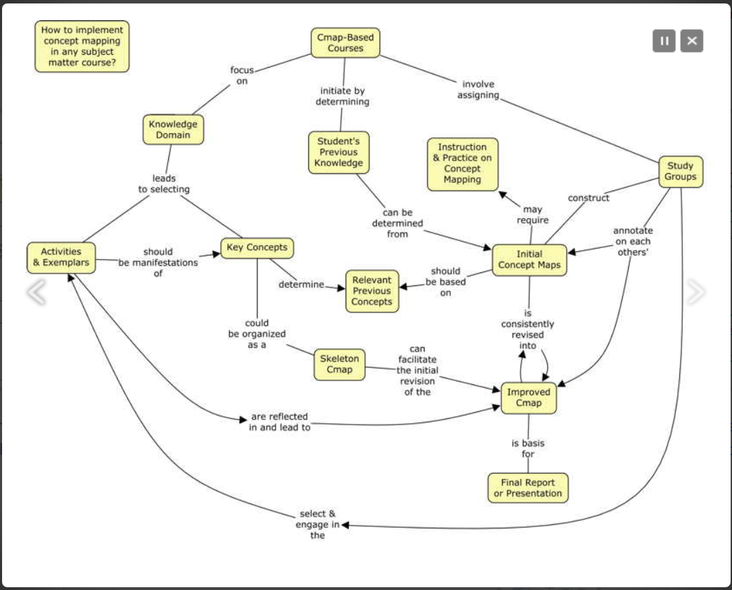 A screen shot of the map created using CMAP tool